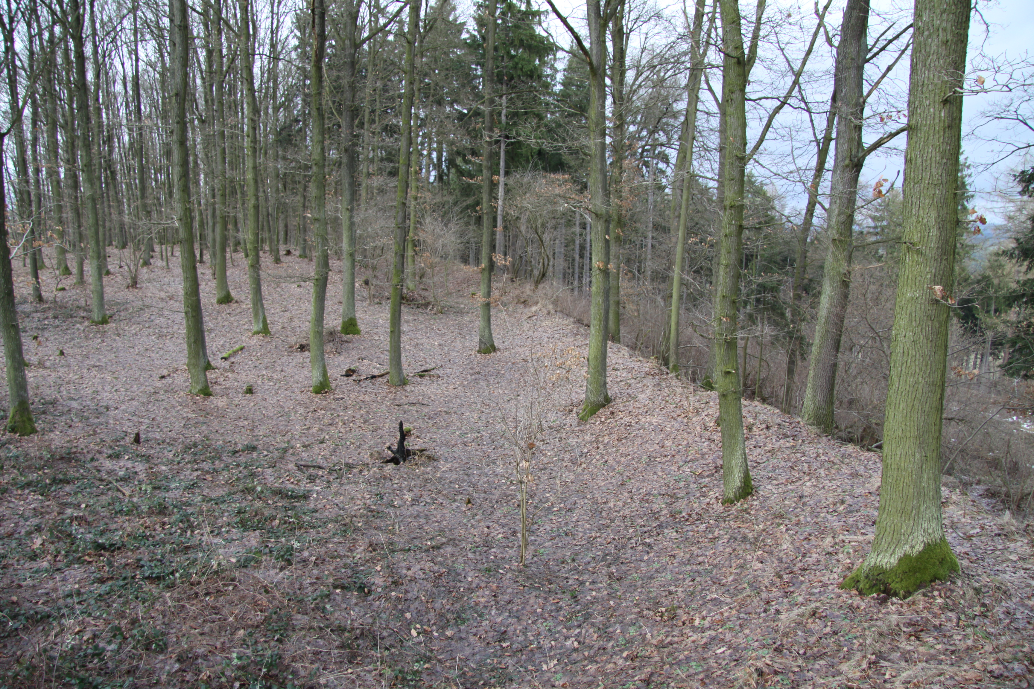 Natural reserce Kuřidlo near Strakonice, Strakonice District, Czech Republic